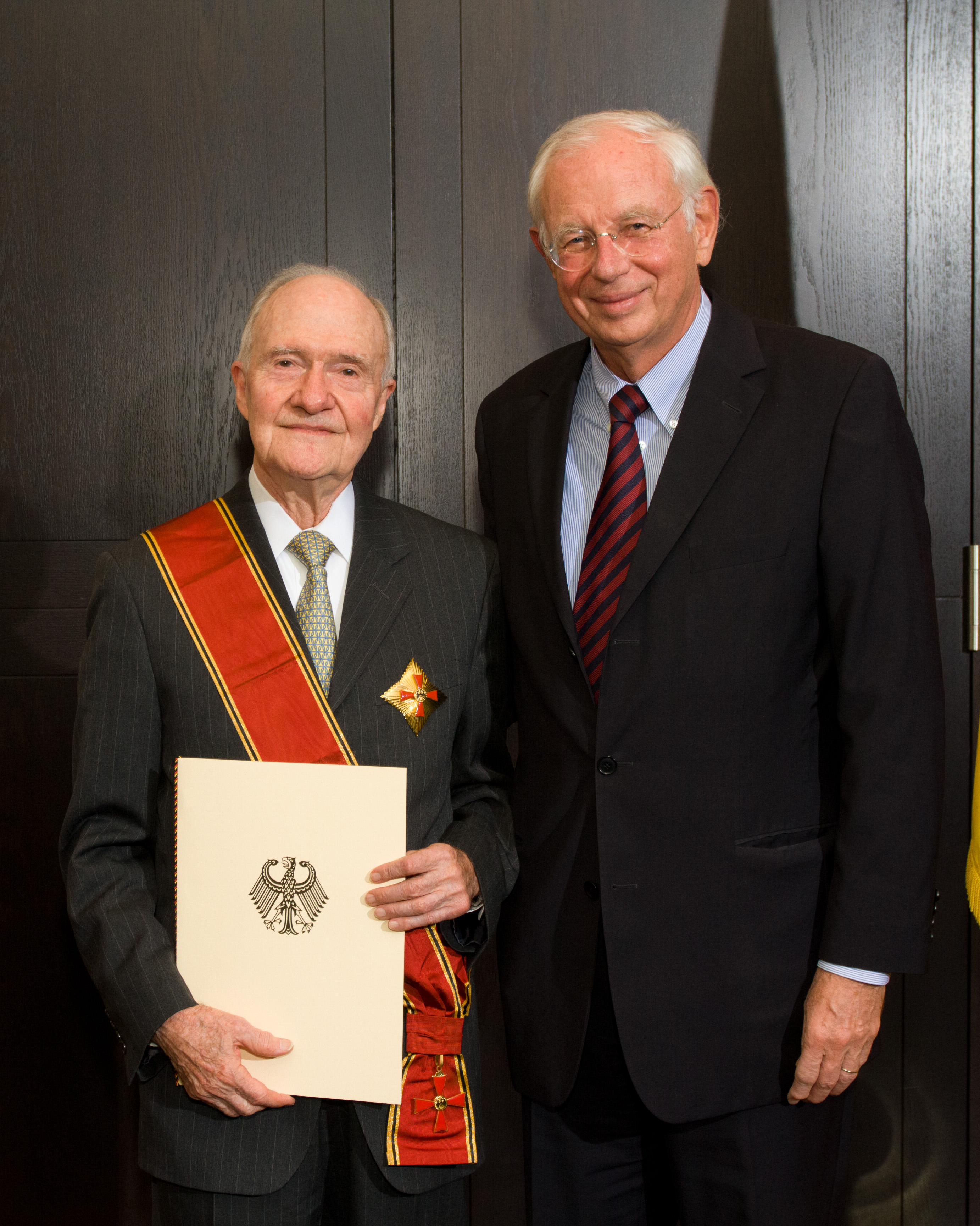 Former National Security Advicer Ltd. General Brent Scowcroft with the german Ambassador Klaus Scharioth in his residency in Washington D.C. after receiving the Order of Merit of the Federal Republic of Germany.